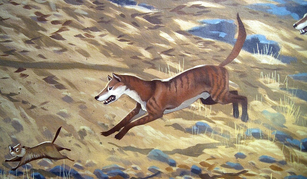 Tephrocyon chasing Mylagaulus